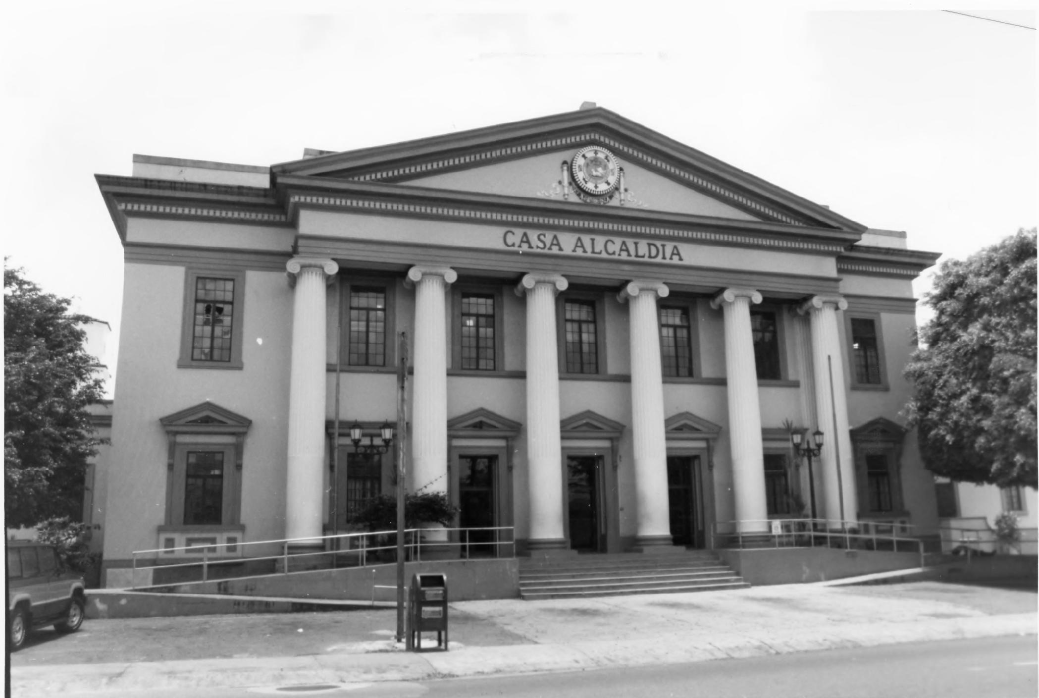 Humacao City Hall (Casa Alcaldía) in the former District Courthouse, Humacao, Puerto Rico.